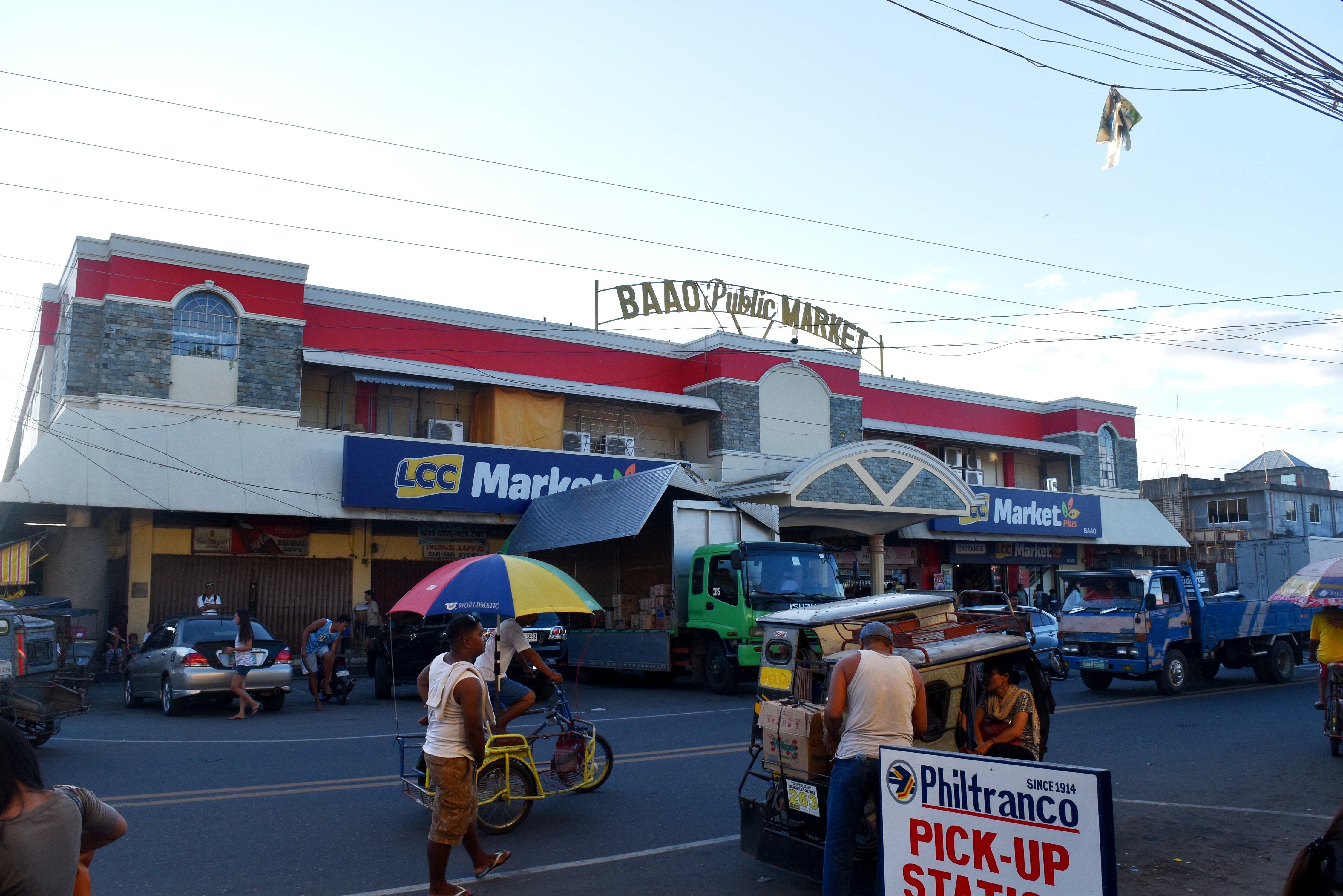 Baao Centro